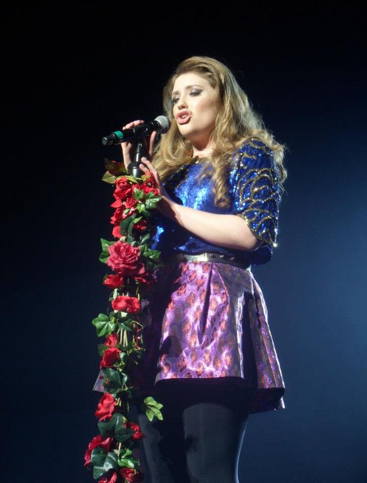 Ella Henderson at The X Factor 2013 Tour